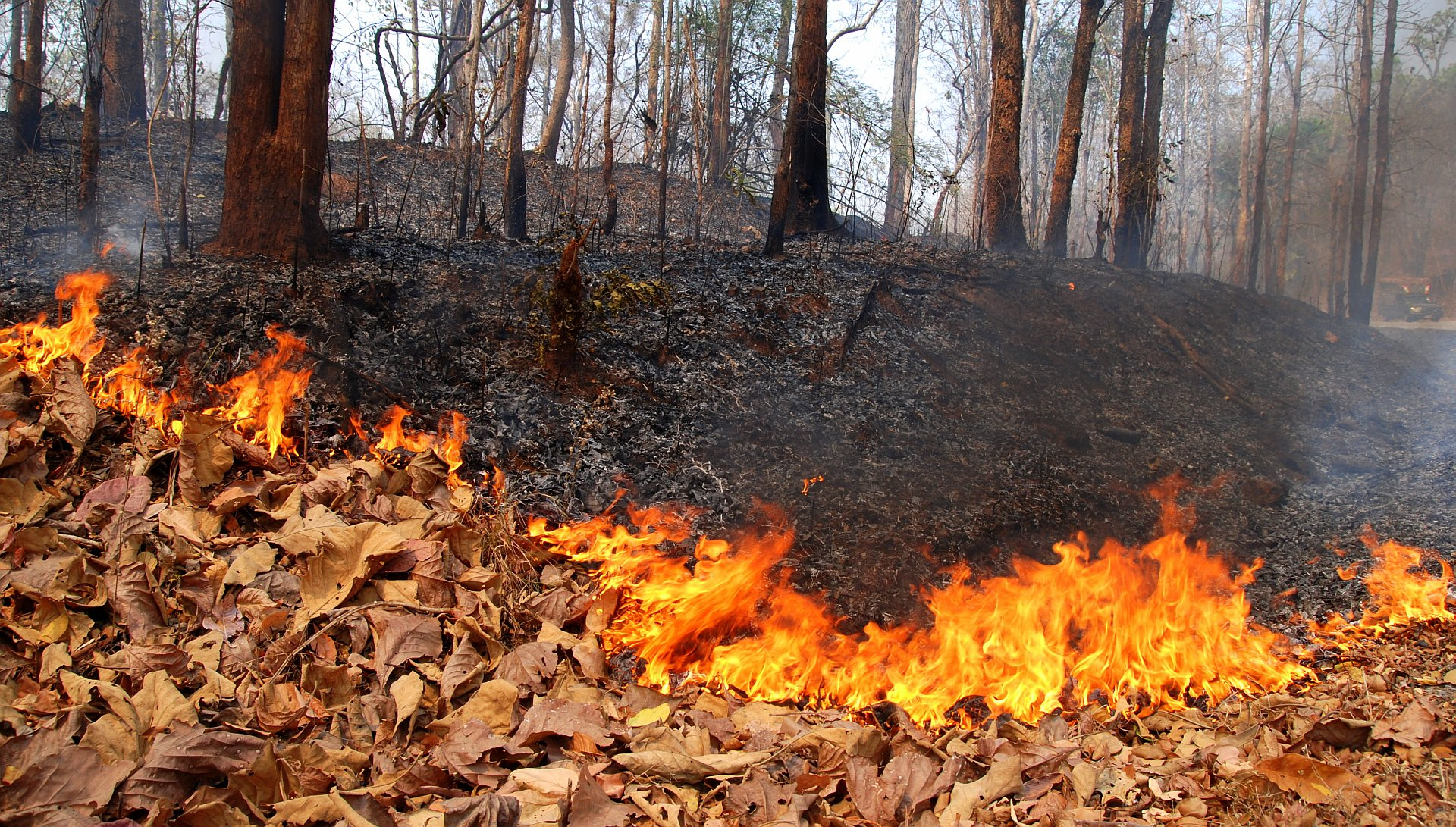 A forest fire along road 108 between Mae Sariang and Khun Yuam, in Mae Hong Son province. It was one of the many fires that day. This is done mainly so that the Astraeus asiaticus (